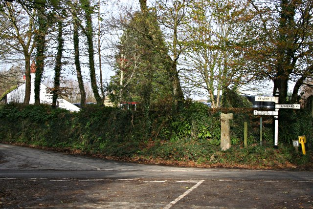 Wenmouth Cross The old disfigured stone cross which can be seen just to the left of the signpost was moved here in the 1930's.